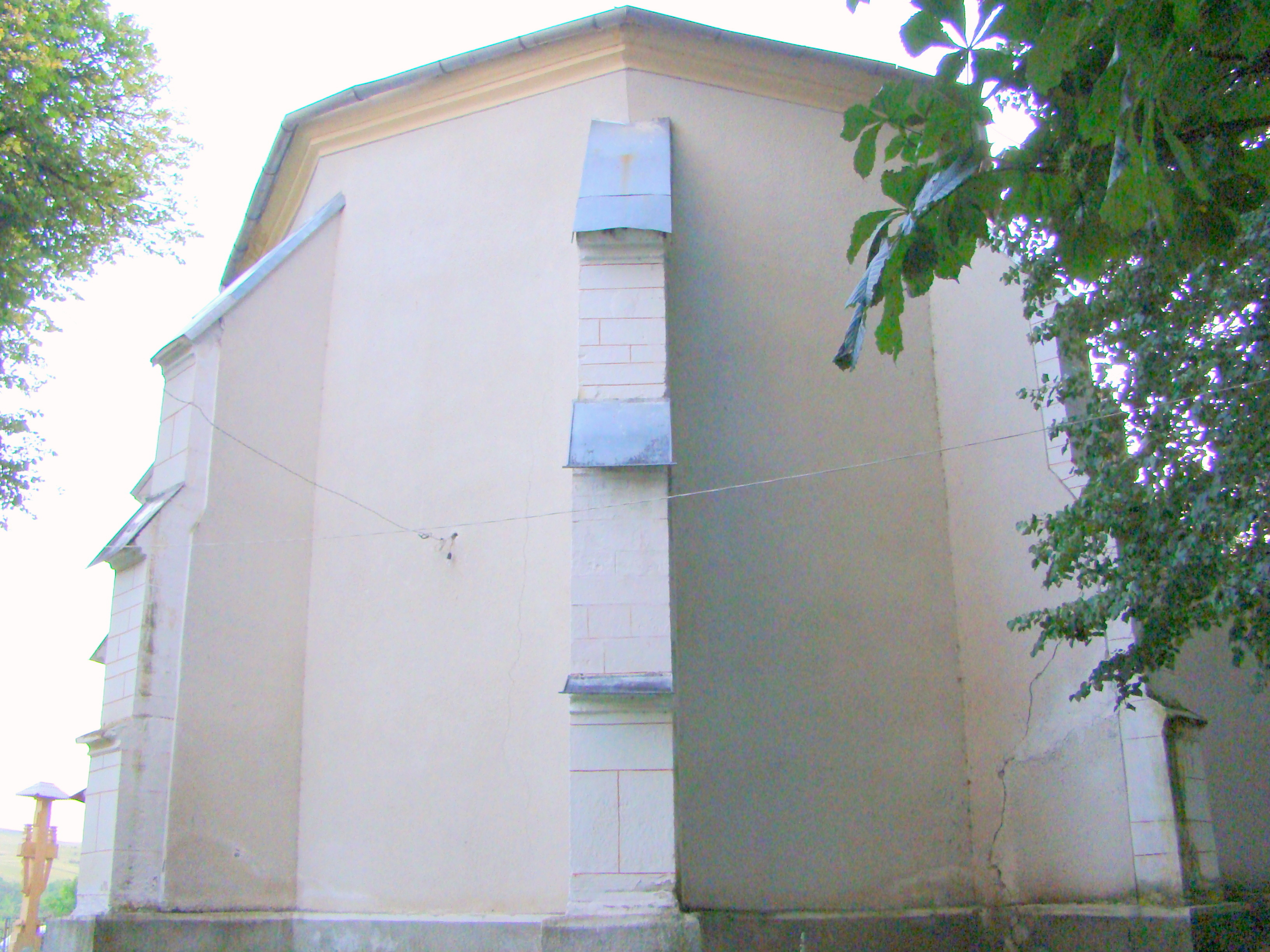 Lutheran church in Sângeorzu Nou, Bistriţa-Năsăud county, Romania